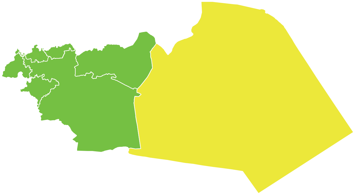 Palmyra District, Syrian governorate of Homs Governorate.